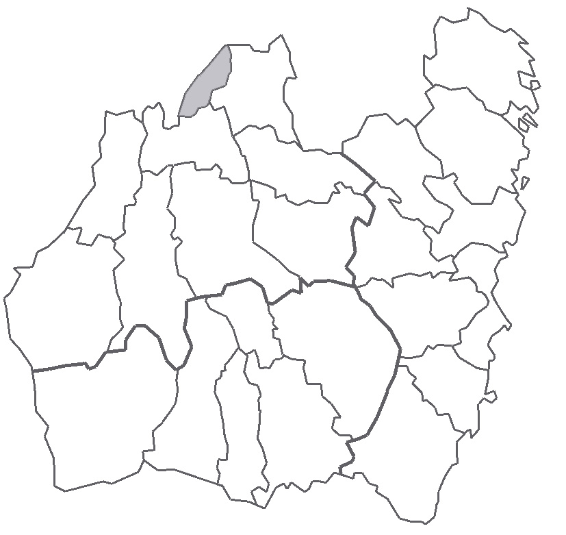 Map describing the location of Vista Hundred inthe province of Småland, Sweden.